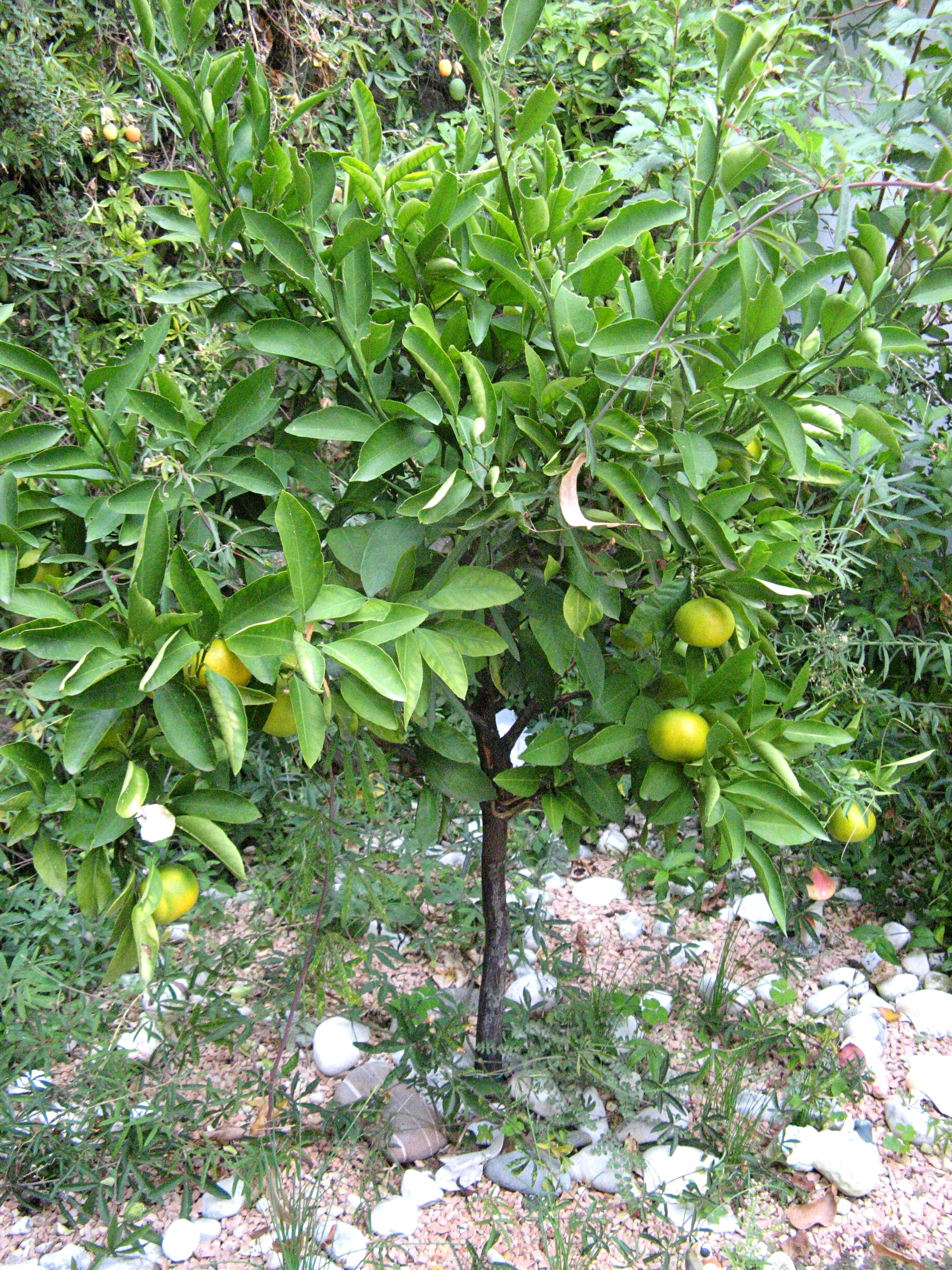 Citrus × tangelo tree with fruits.